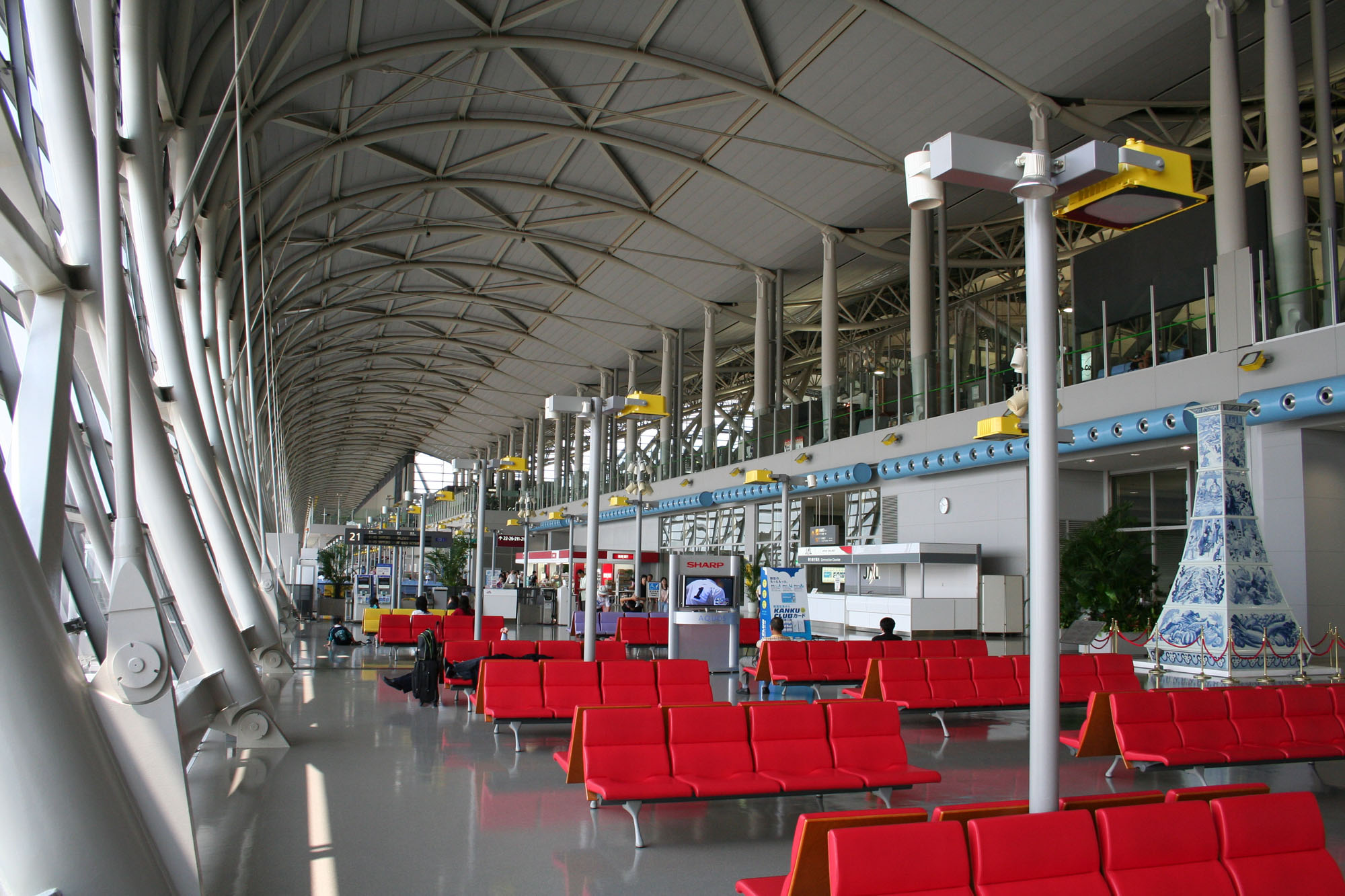 Taken at Kansai International Airport